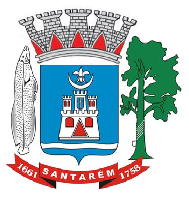 (Brasão do município de Santarém, estado do Pará, Brasil. Fonte: Trabalho próprio; Coat of Arms of the city of Santarém, Pará state, Brazil. Own work; Emerson This work is in the public domain in Brazil for one of the following reasons: It is a work published or commissioned by a Brazilian government (federal, state, or municipal) prior to 1983.(Law 3071/1916, art. 662; Law 5988/1973, art. 46; Law 9610/1998, art. 115) It is the text of a treaty, convention, law, decree, regulation, judicial decision, or other official enactment.(Law 9610/1998, art. 8) )